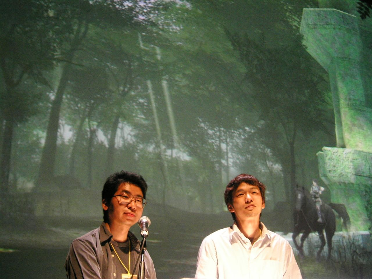 Fumito Ueda (right, lead designer of Shadow of the Colossus) and Kenji Kaido (left, producer of Shadow of the Colossus)